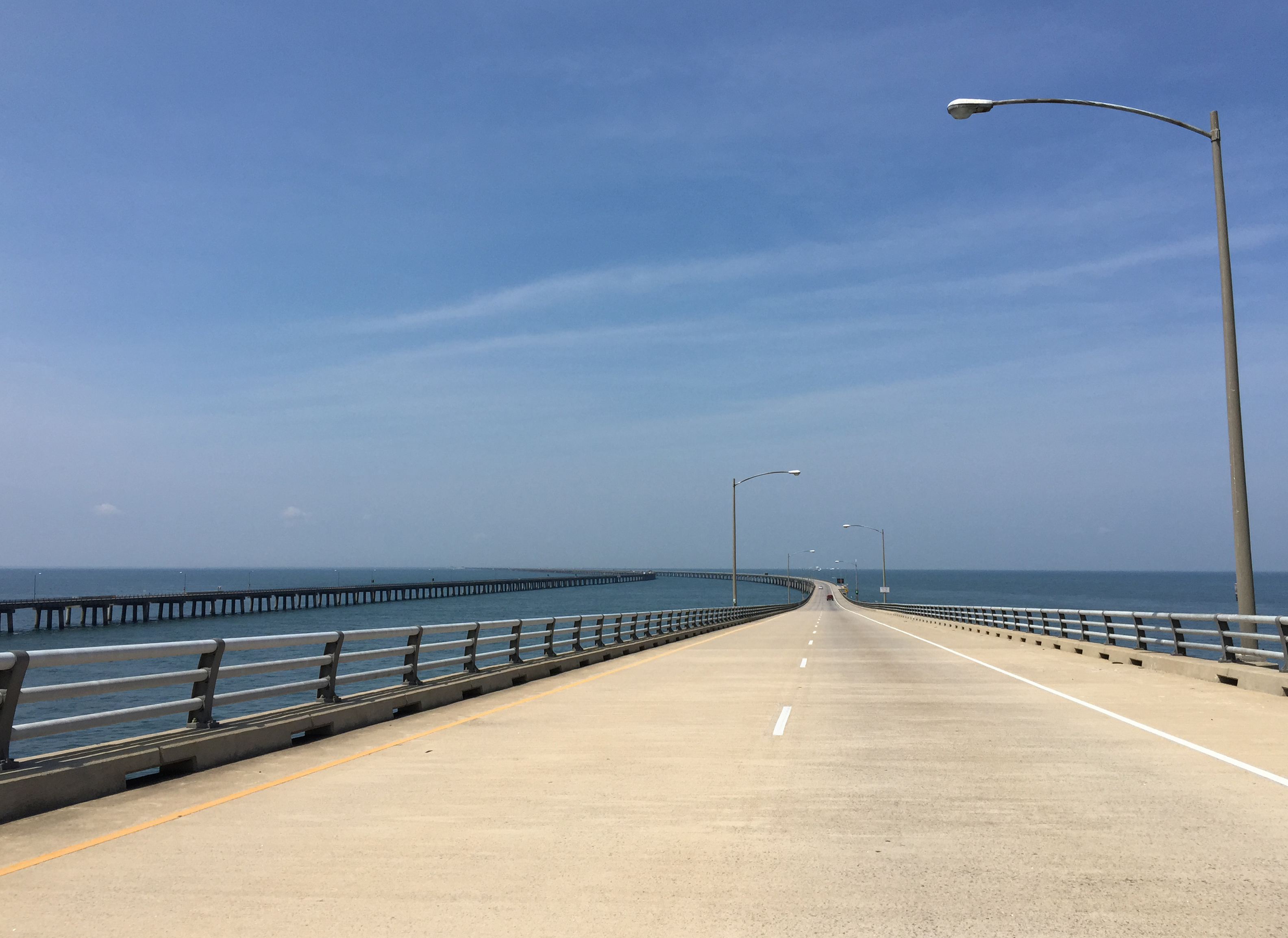 View south along U.S. Route 13 (Chesapeake Bay Bridge-Tunnel) crossing the North Channel of the Chesapeake Bay in Northampton County, Virginia